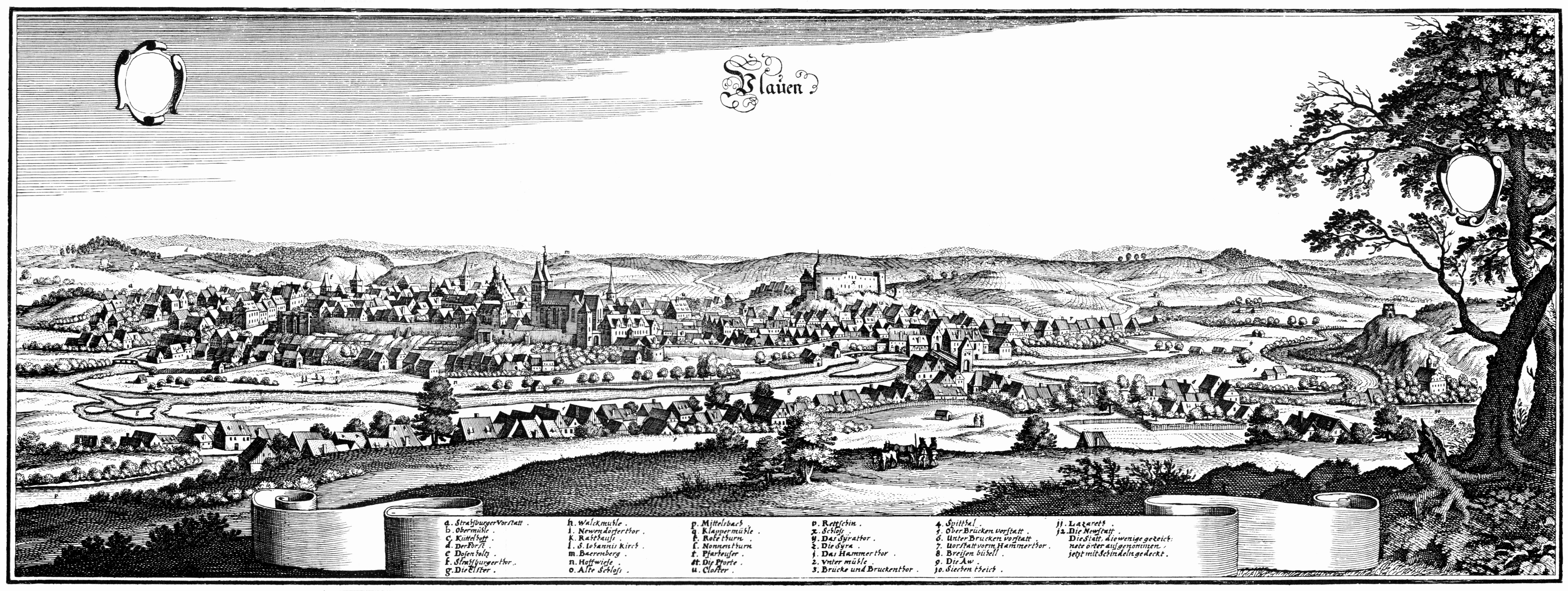 This image was created by Matthäus Merian the elder in the 17th century.